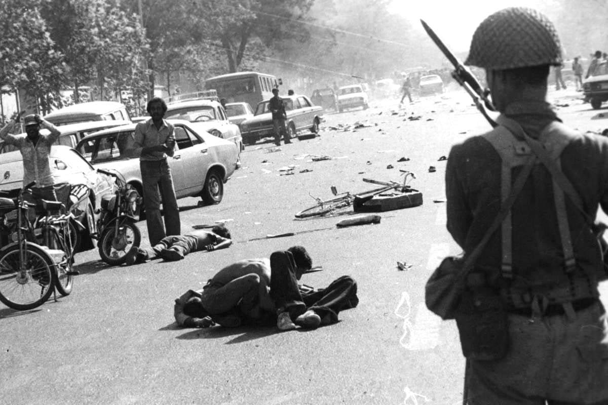 Black Friday (7th od September 1978)